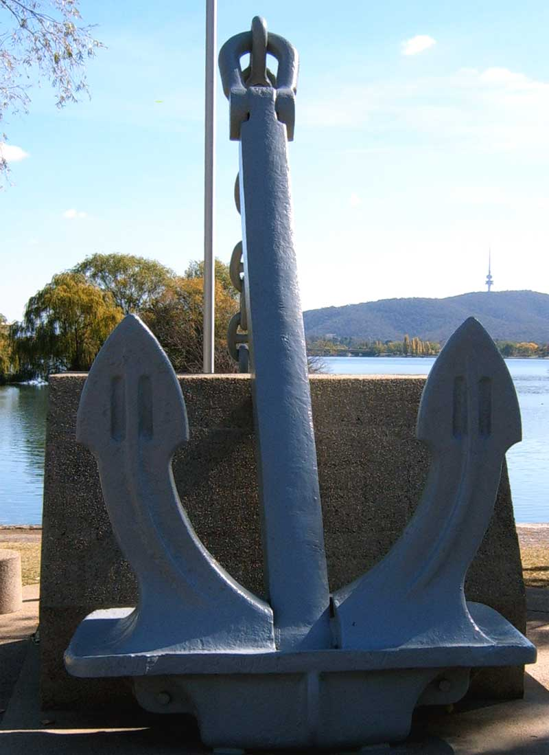 HMAS Canberra memorial, Canberra, Australia.